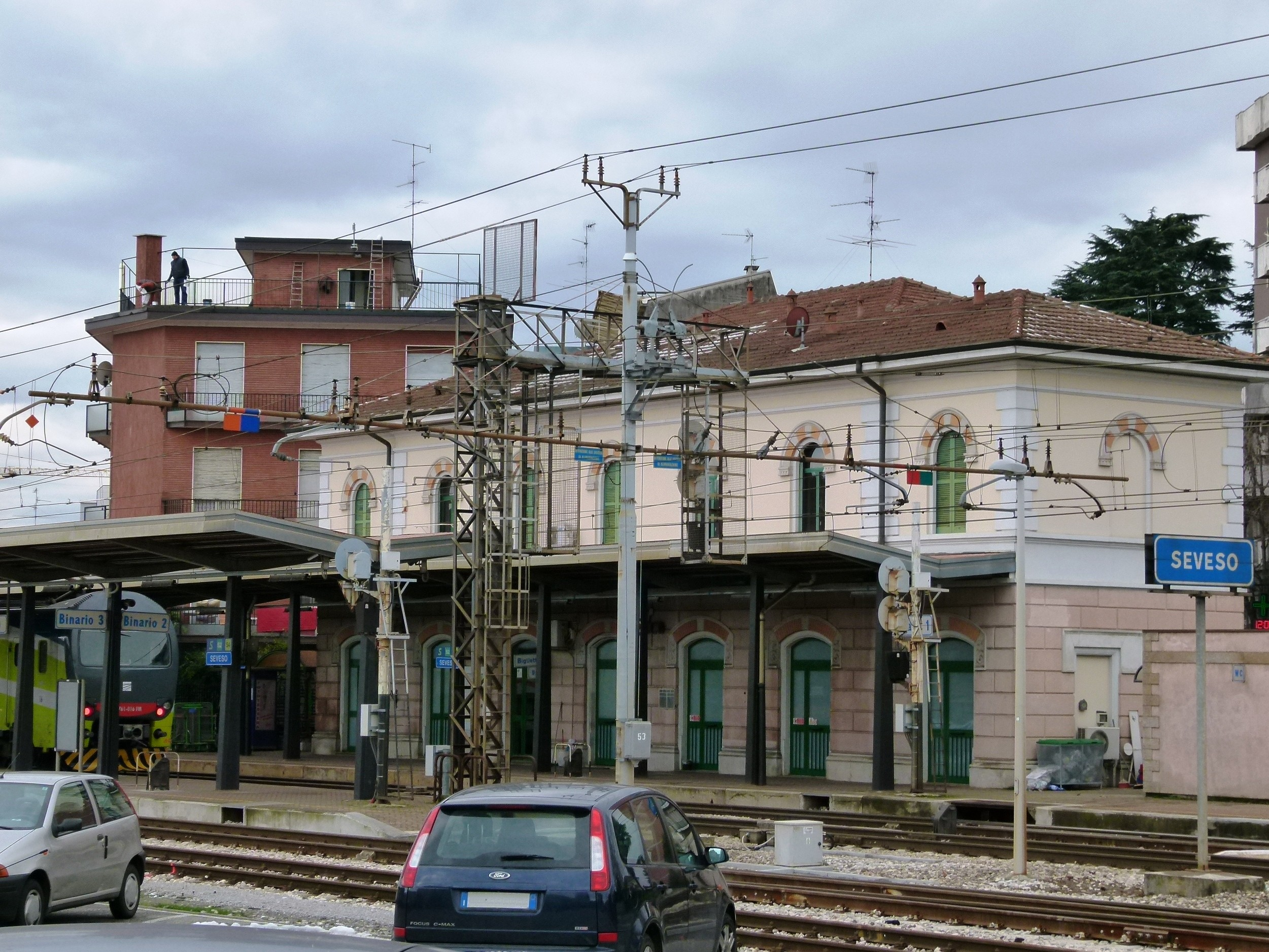 Seveso FN train station, on the Milano-Asso railway